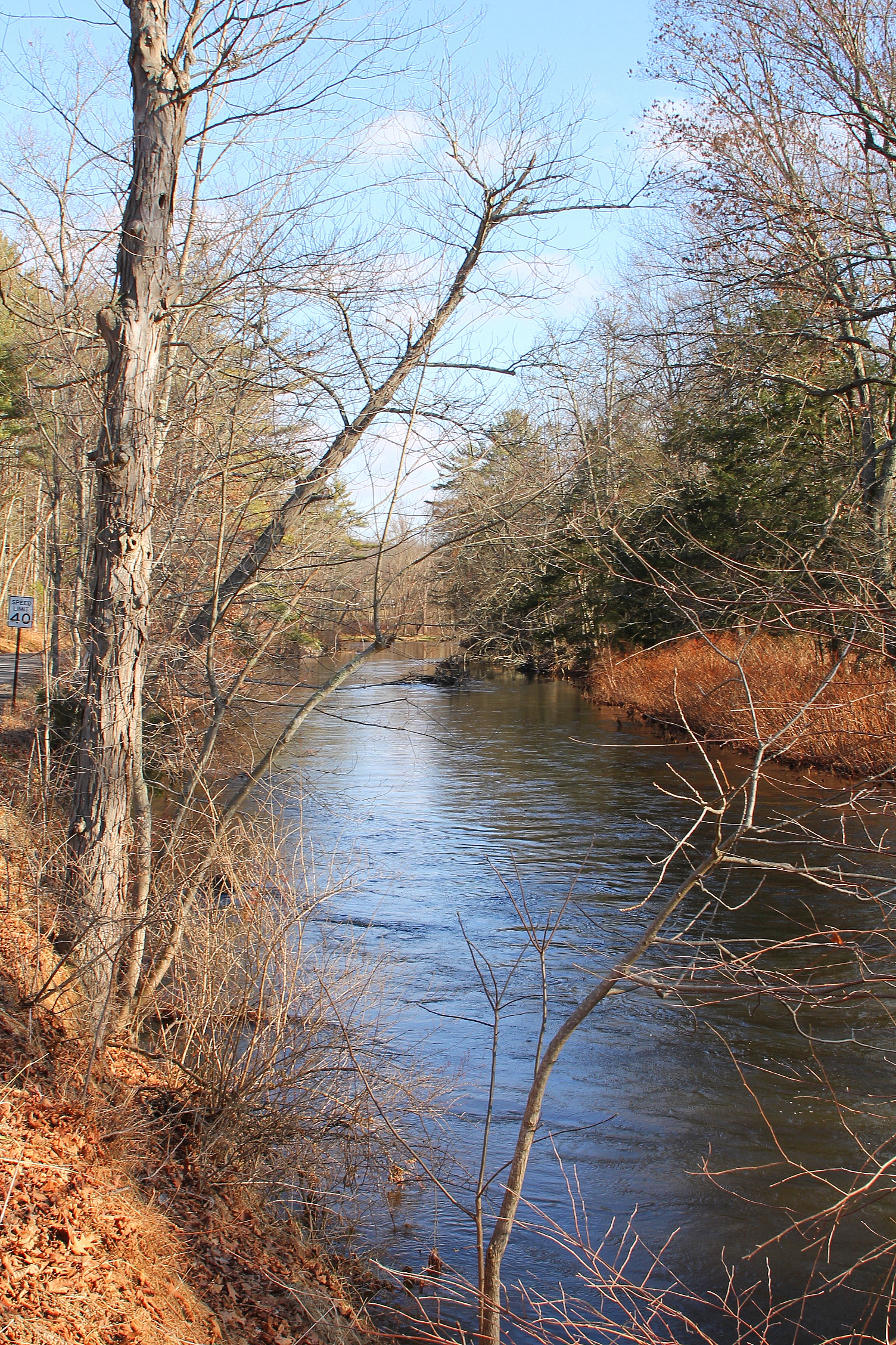 Huntington Creek looking upstream from Winding Road